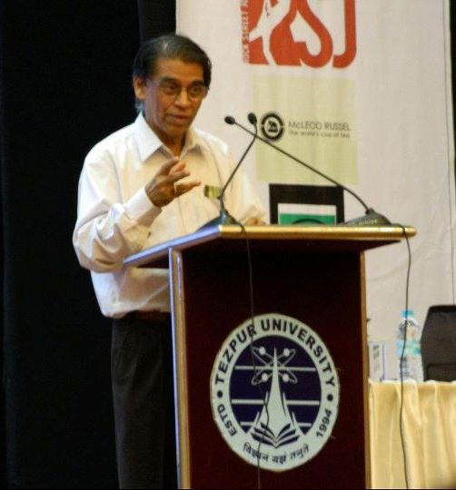 T Ramasami in the lecture during TechXetra 2011